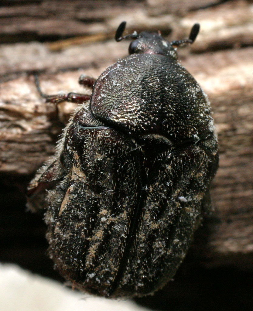 Dark flower scarab, Euphoria sepulcralis. Location: Durham County, North Carolina, United States. Identification references: BugGuide; Dillon, Elizabeth S., and Dillon, Lawrence (1961). A Manual of Common Beetles of Eastern North America. Evanston, Illinois: Row, Peterson, and Company.